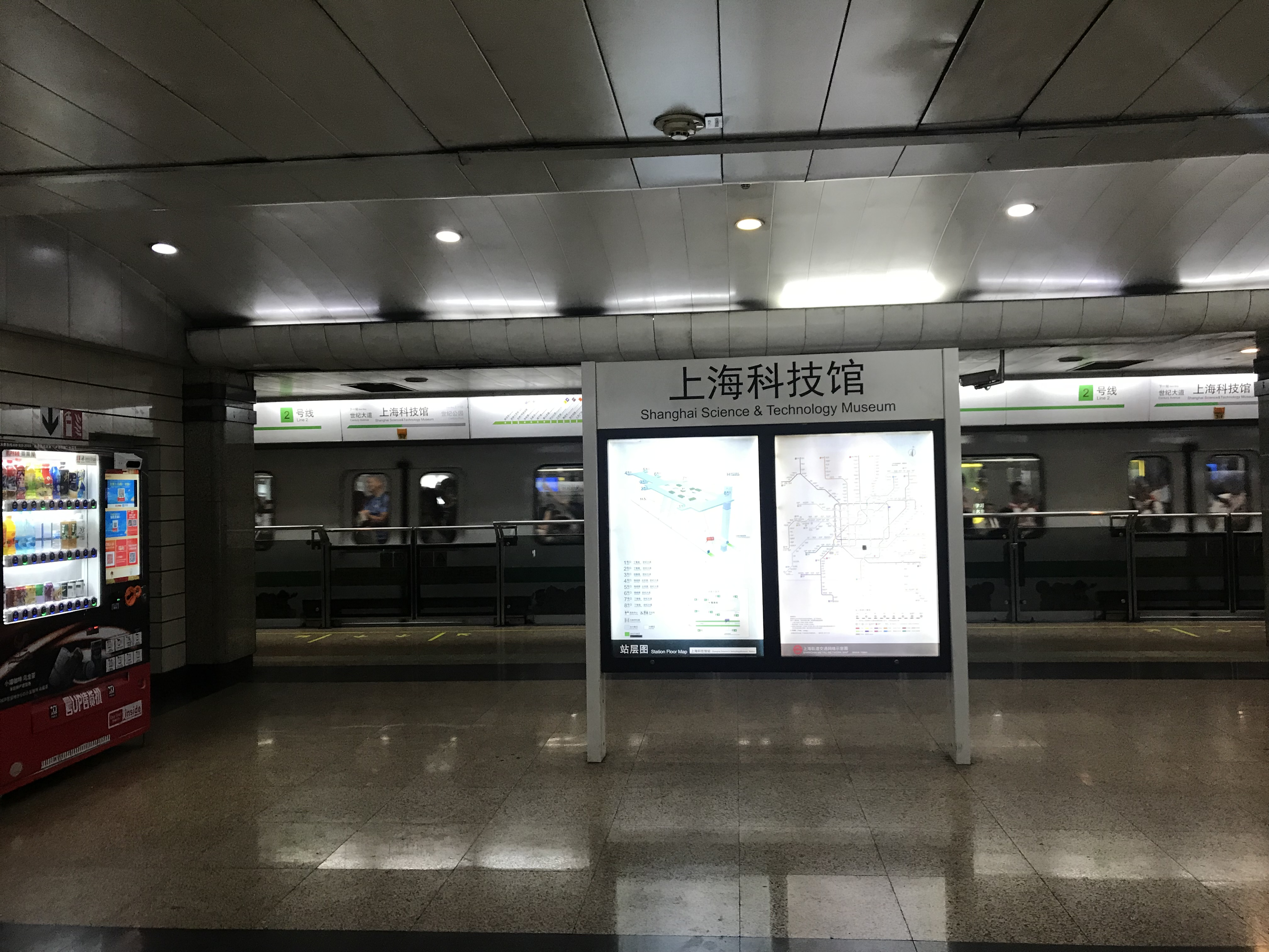 201908 Platform of Shanghai Science & Technology Museum Station